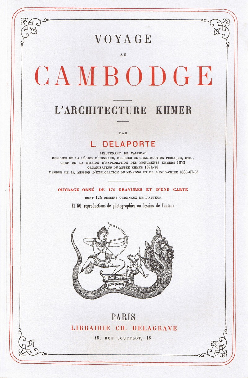 Scan of cover of the book "Voyage au Cambodge" by Louis Delaporte - Paris, Delagrave 1880 (reedited in 1990)